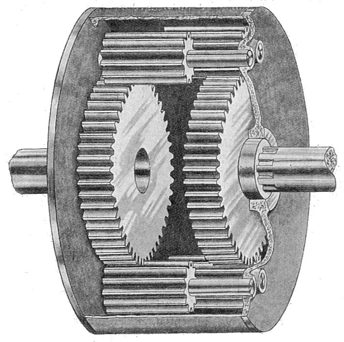 Spur gear differential (Manual of Driving and Maintenance).jpg